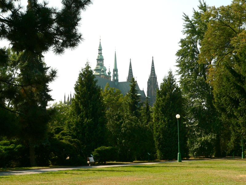 Prague is the capital and largest city of the Czech Republic. You can use the images for free. But a link to - I would be happy :)